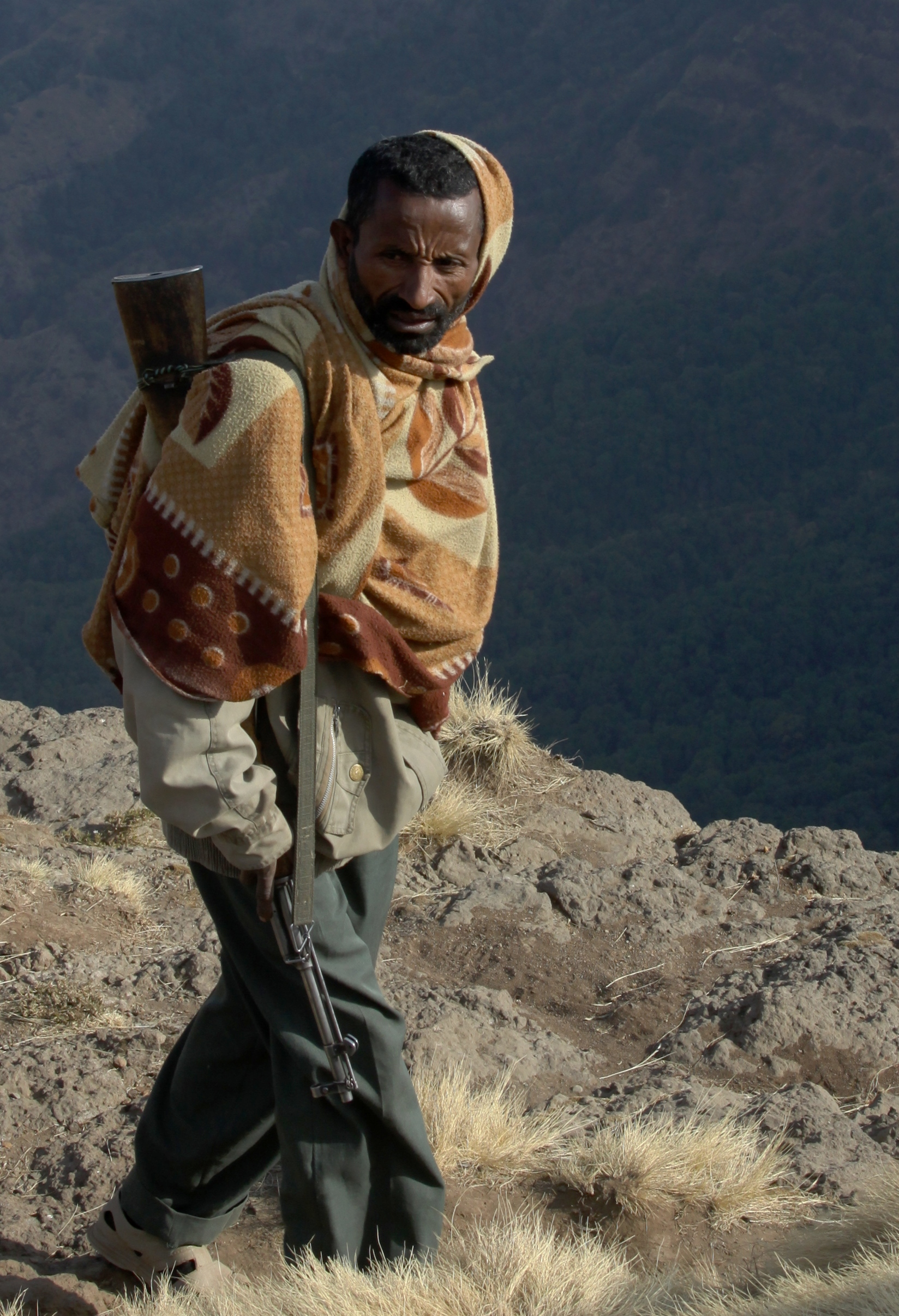 Man with a gun